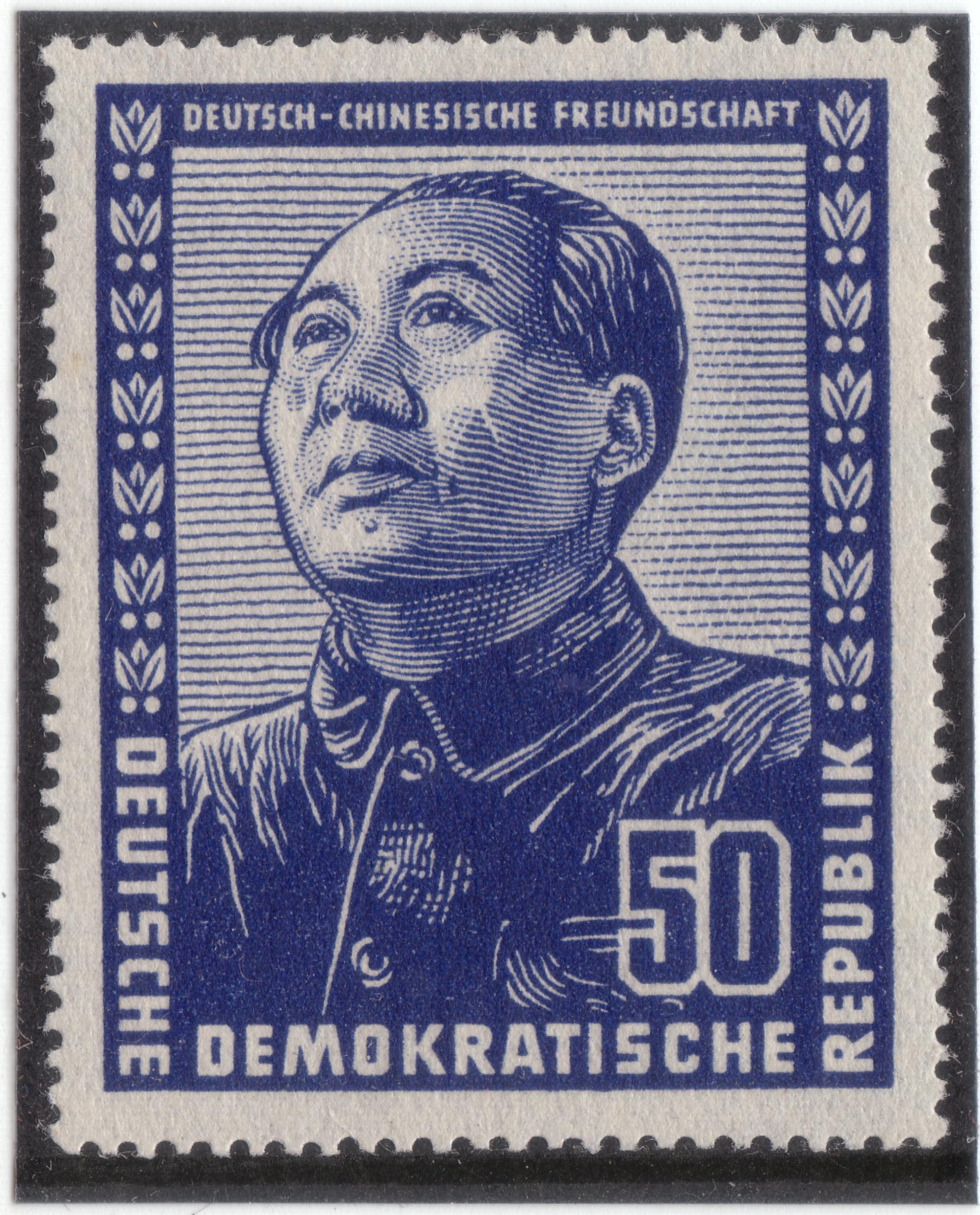 German-Chinese Friendship Graphic designer: Gerhard Martens Ausgabepreis: 50 Pf First Day of Issue / Erstausgabetag: 10. Juli 1951 Michel-Katalog-Nr: 288